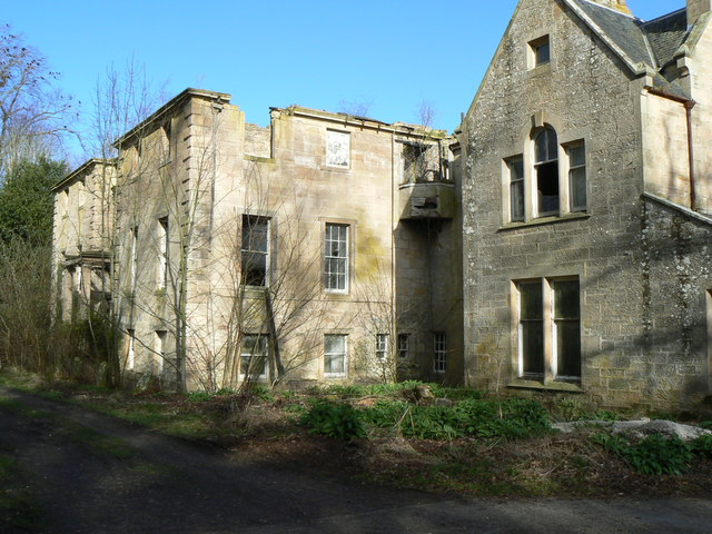 Moy House Badly damaged by fire in the 1990s, this erstwhile fine country house is a sad sight now.